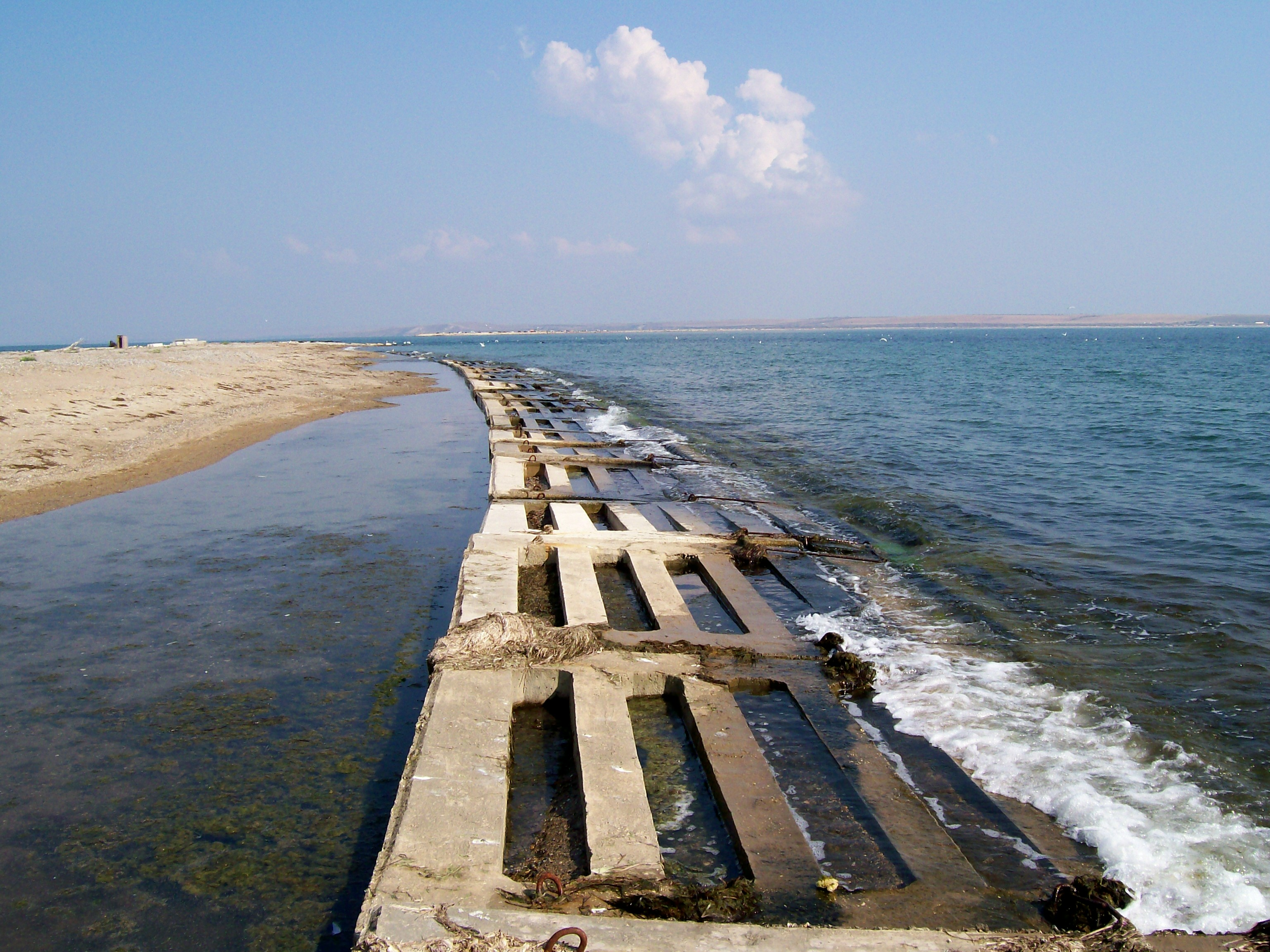 Tuzla Island, protective structures, august 2007